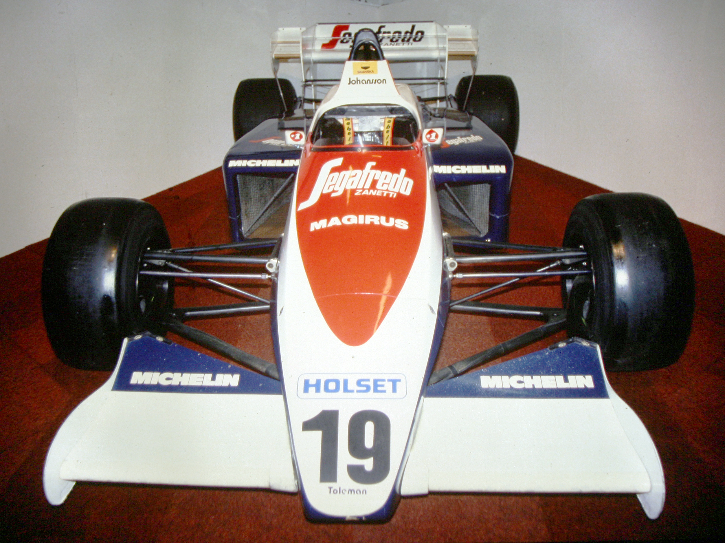 A Toleman TG184 as driven by Stefan Johansson at the end of the season, here at display at the 1985 Motormässan in Malmö, Sweden